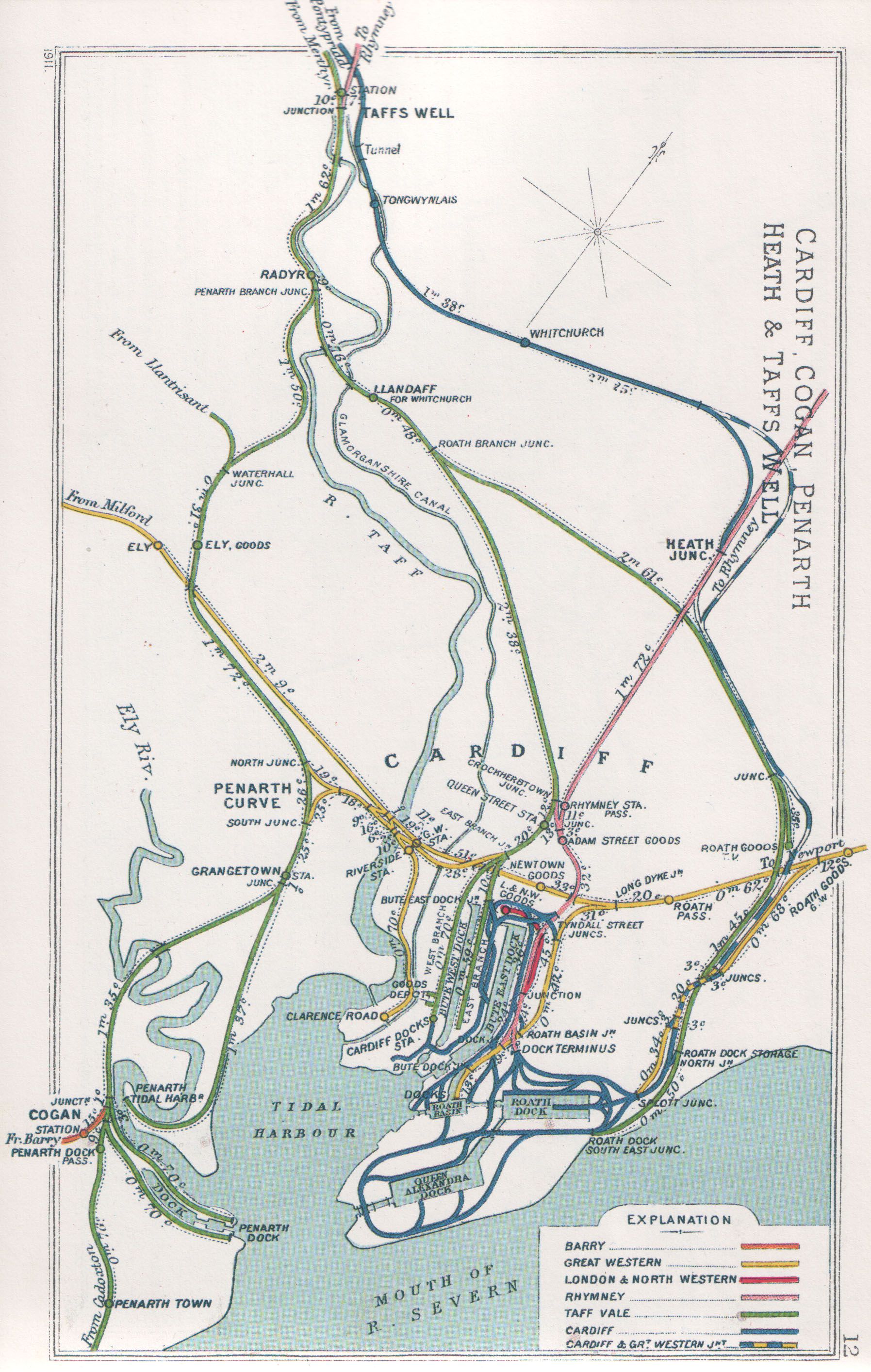 Cardiff, Cogan, Penarth, Heath & Taffs Well Railway Junction Diagram